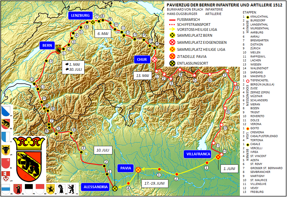 Pavia Campain of the Bernese contingent 1512